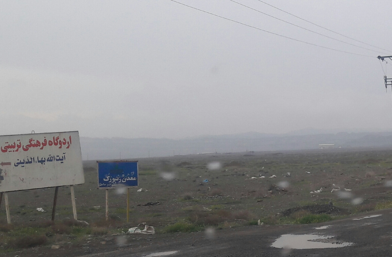 a way to dam